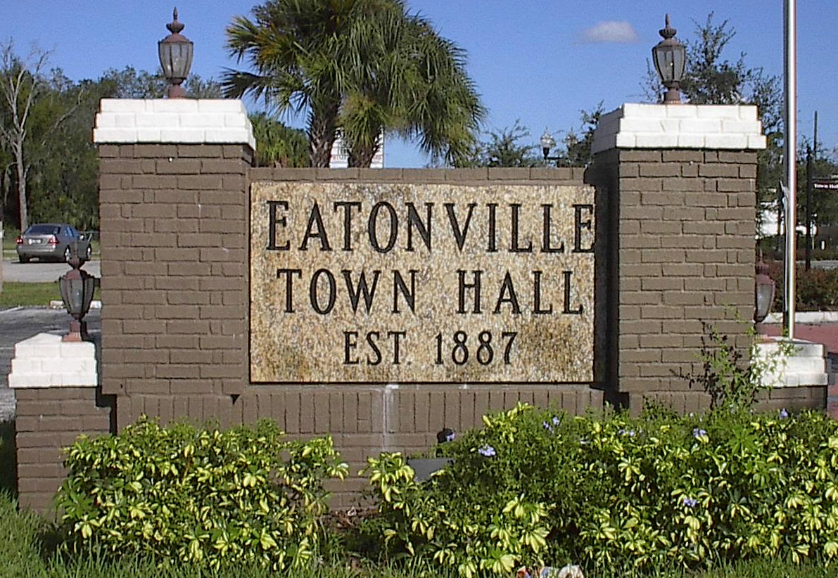 Sign marker for the Town Hall in Eatonville, Florida, the first all-black town to be incorporated in the United States on 15 August 1887.